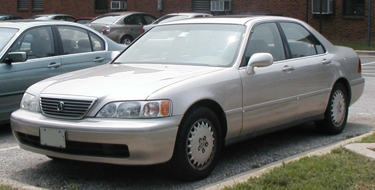 1996-1998 Acura RL photographed in USA.